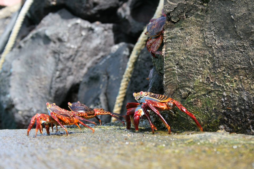 Grapsus grapsus